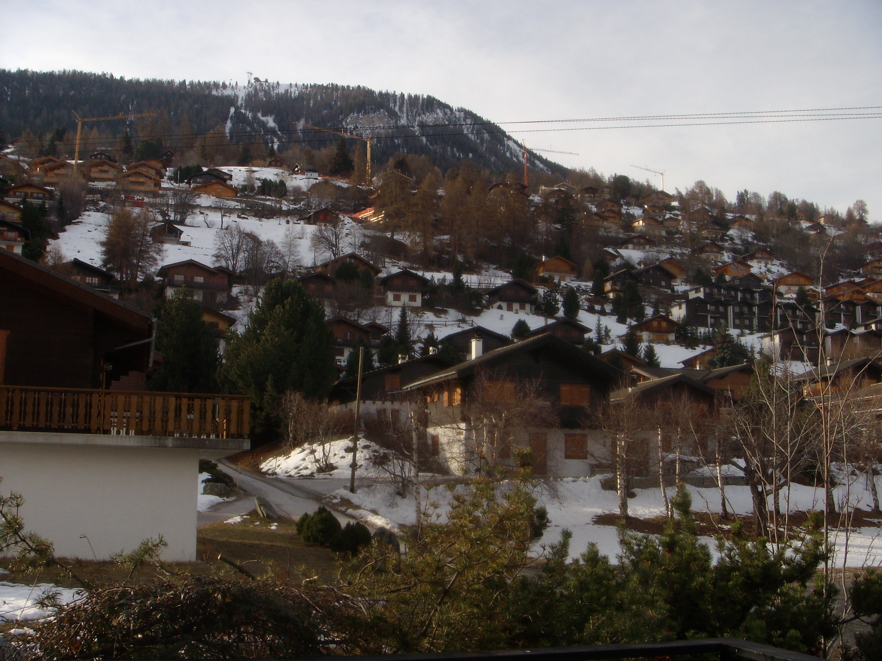 Village of Haute Nendaz above Nendaz, Valais, Switzerland